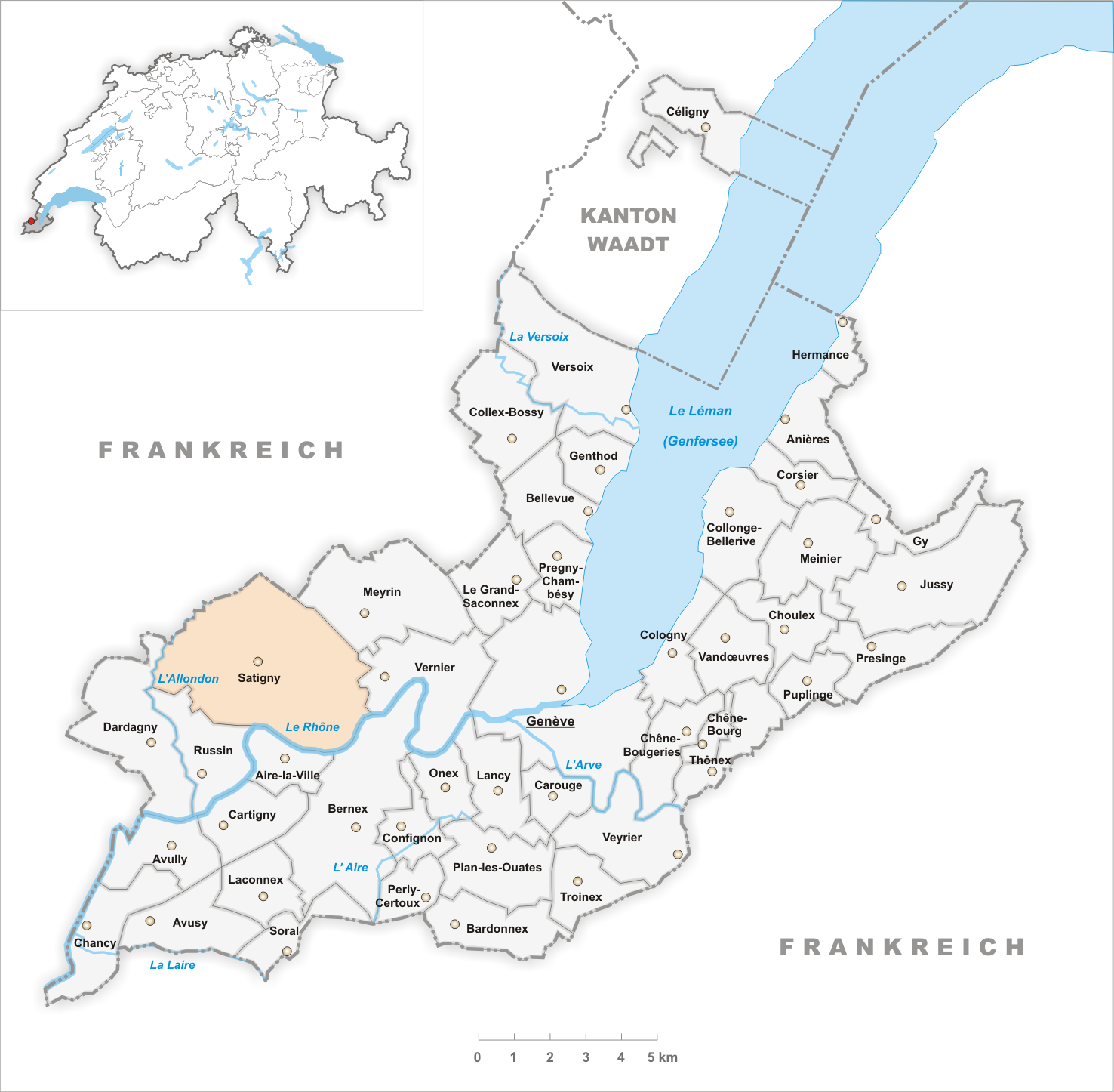 Municipality Satigny